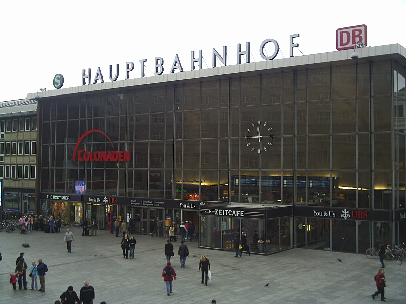 Cologne Main Station by the Rhine River